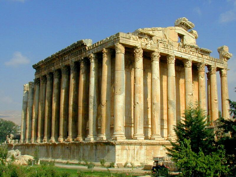 Temple of Bacchus